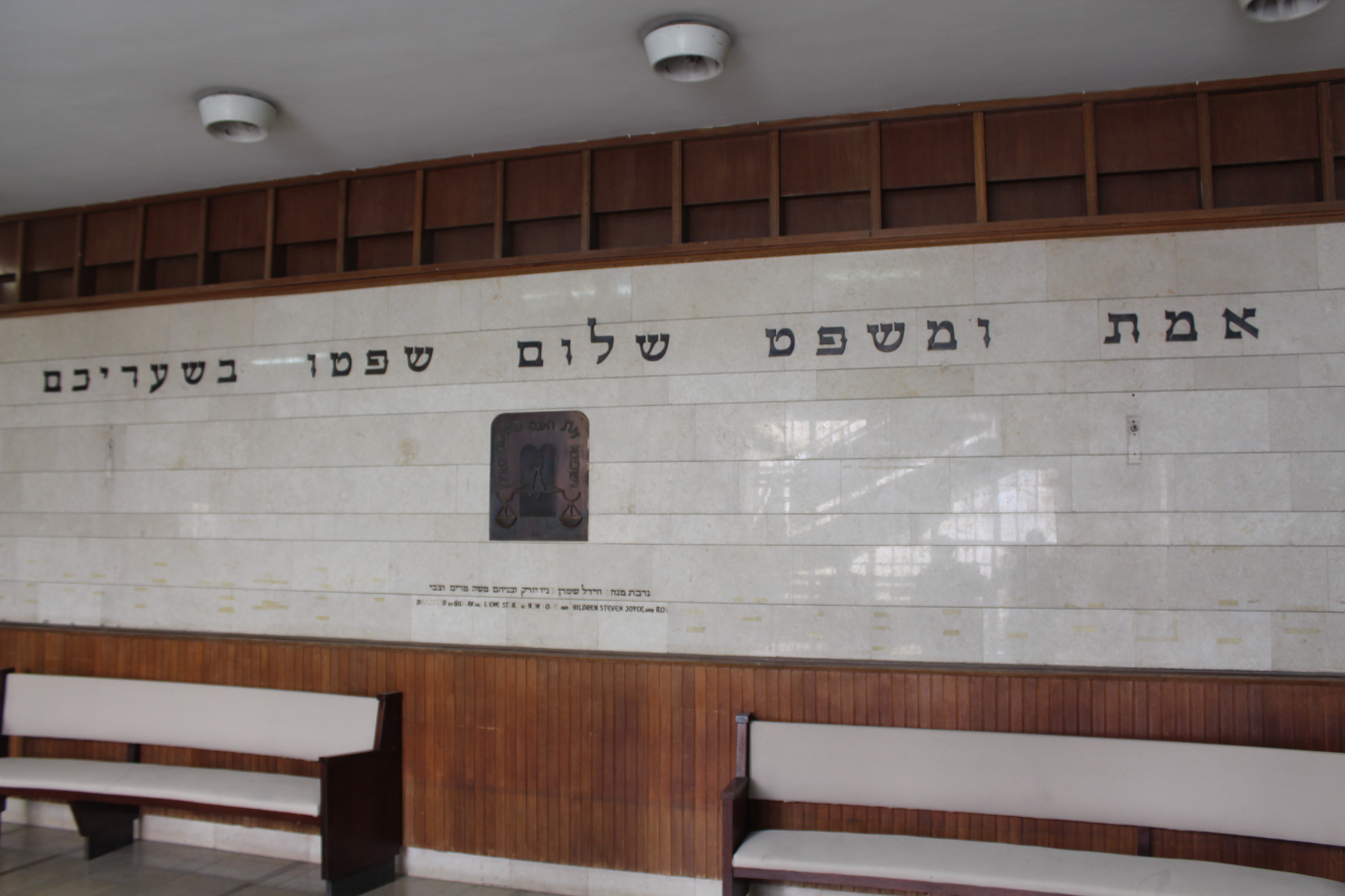 Heichal Shlomo Interiors, Jerusalem, Israel This image was taken as part of the Elef Millim project trip to Heichal Shlomo and The National Institutions House, in Jerusalem which was held on Friday, 15th November 2013. To view all images uploaded as part of the Elef Millim Project